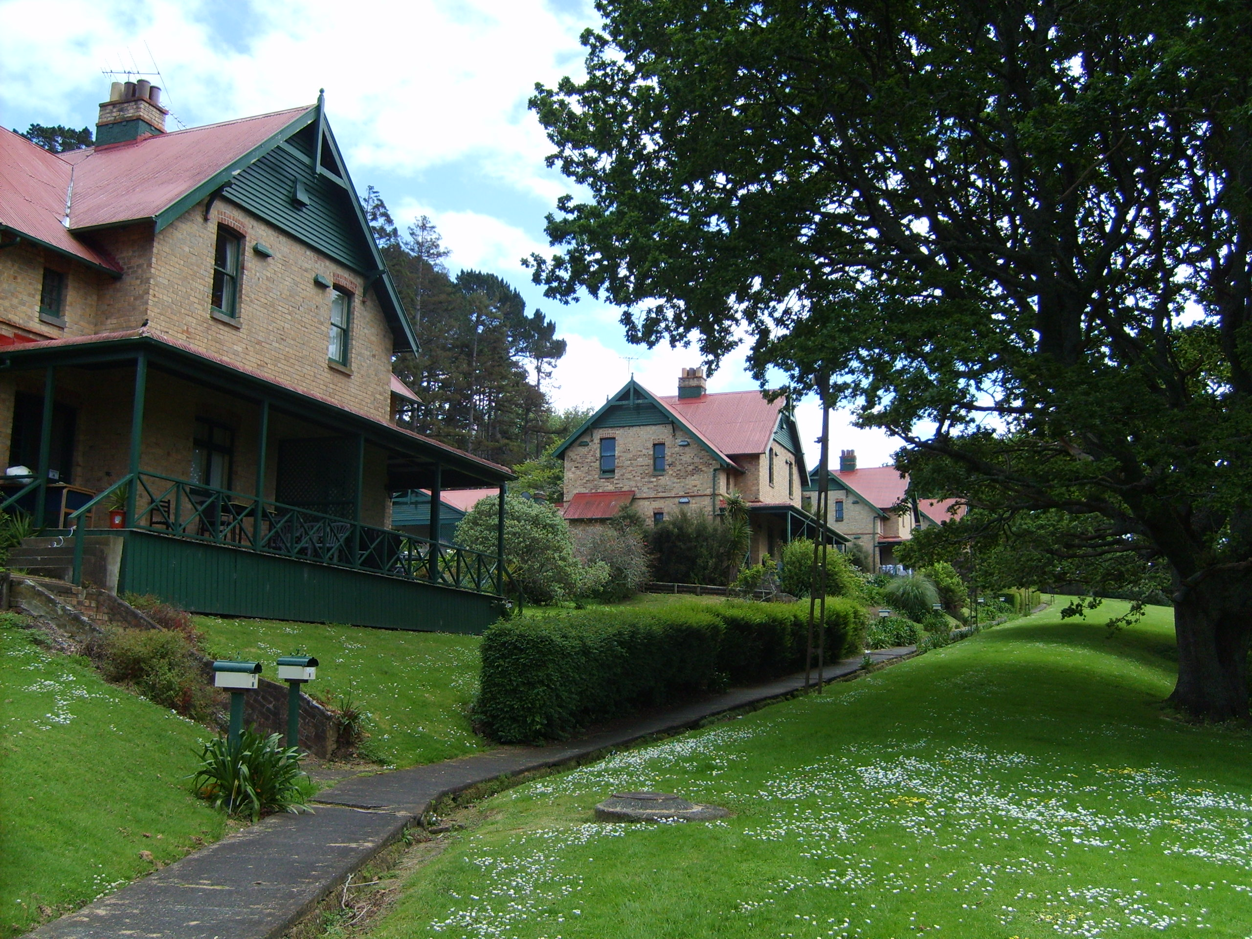 Brick workers' cottages at Chelsea Sugar Refinery, Auckland